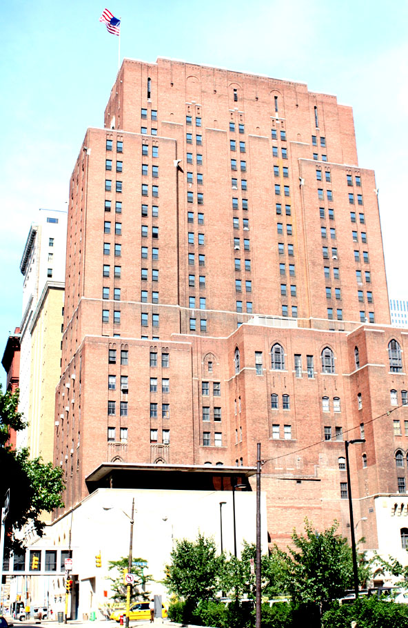 Lawrence Hall — brick high-rise at Point Park University in Pittsburgh, Pennsylvania. Designed in the Gothic Revival style by Benno Janssen in 1929.